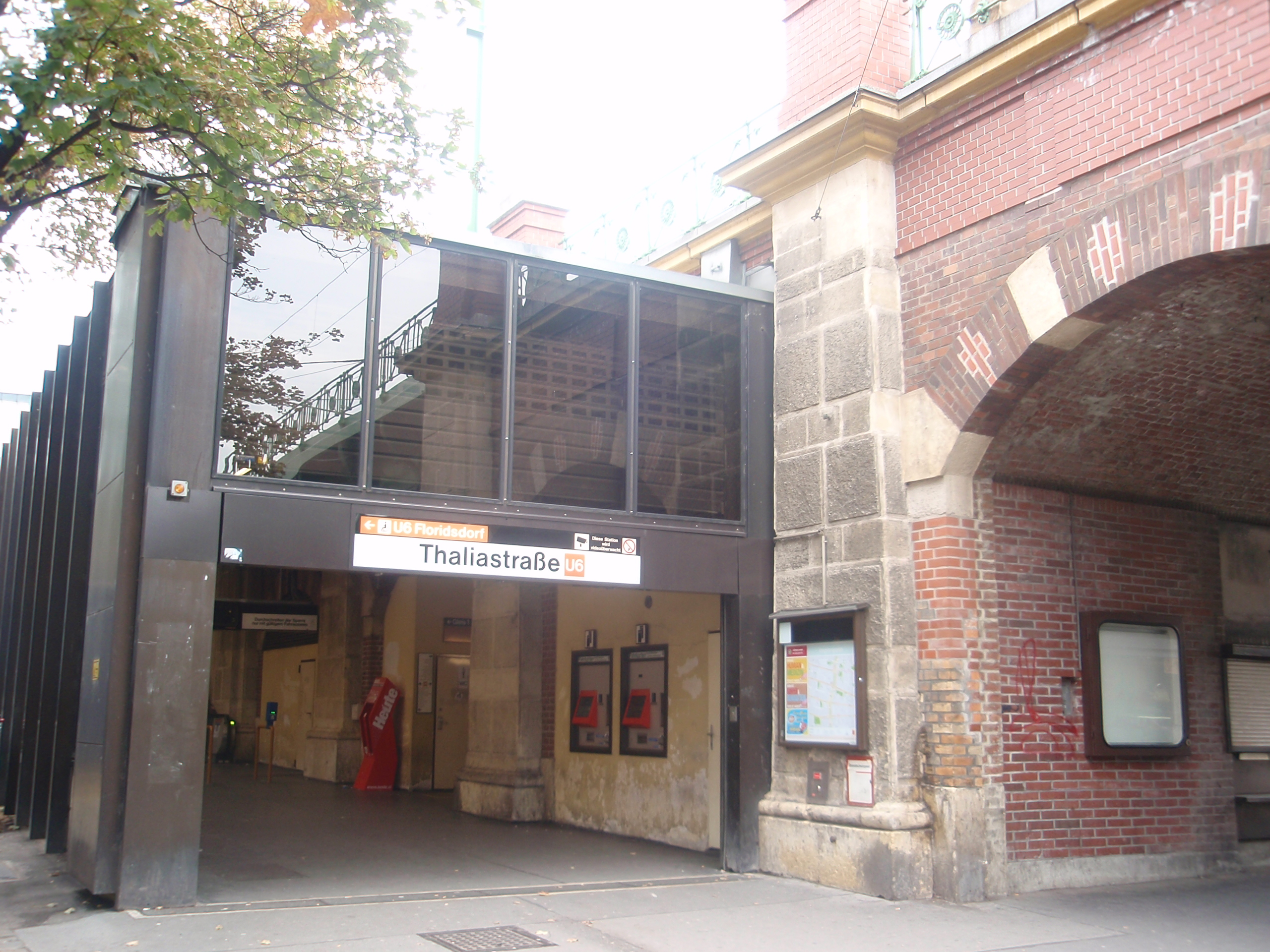 U6-Station Thaliastraße